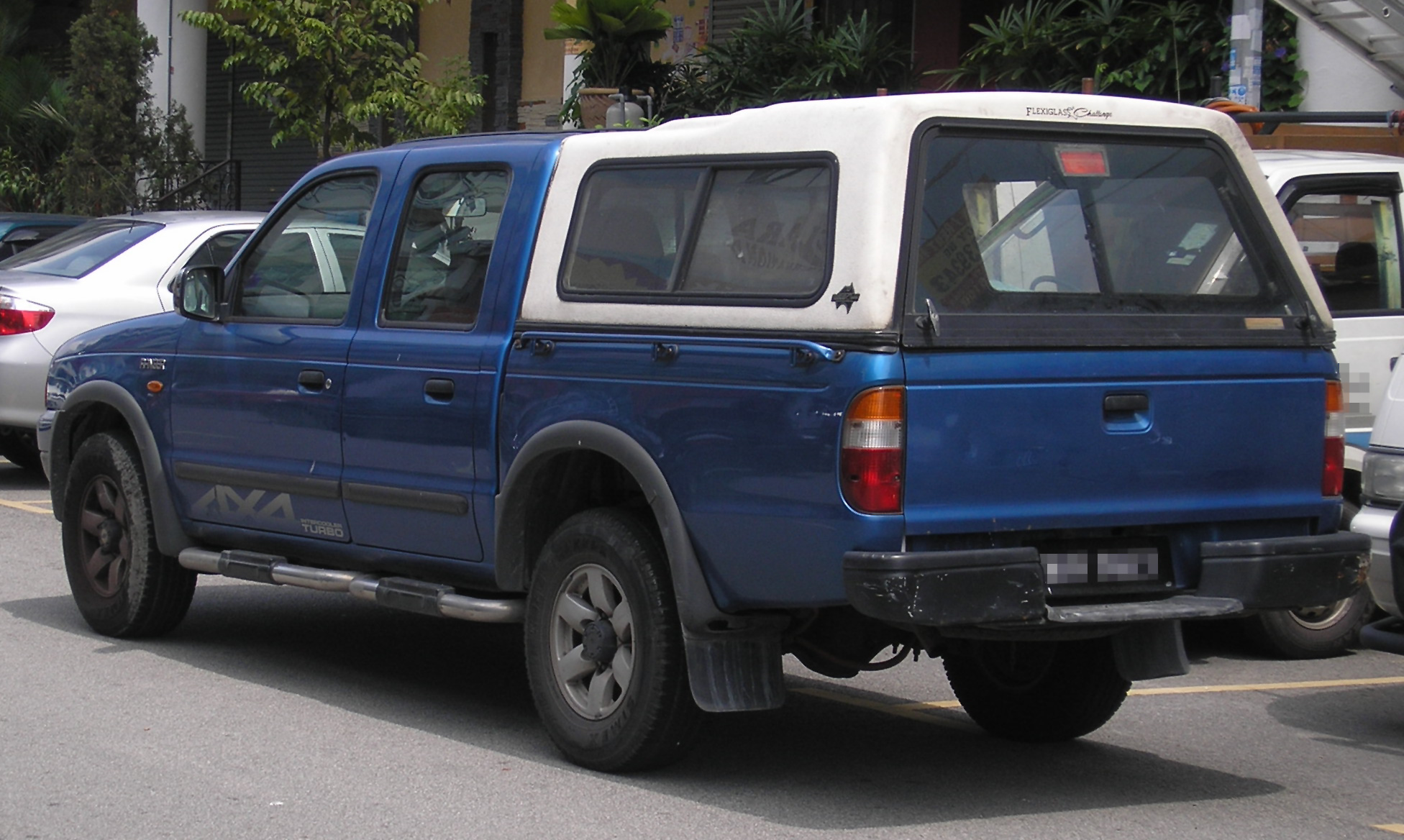 Rear-side shot of a first generation Ford Ranger (Southeast Asian) (with a camper shell-covered truck bed), in Serdang, Selangor, Malaysia.